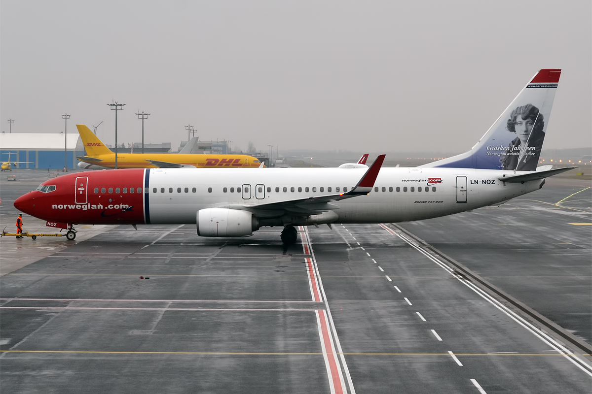 Norwegian Air Shuttle Boeing 737-800 at Tallinn Airport